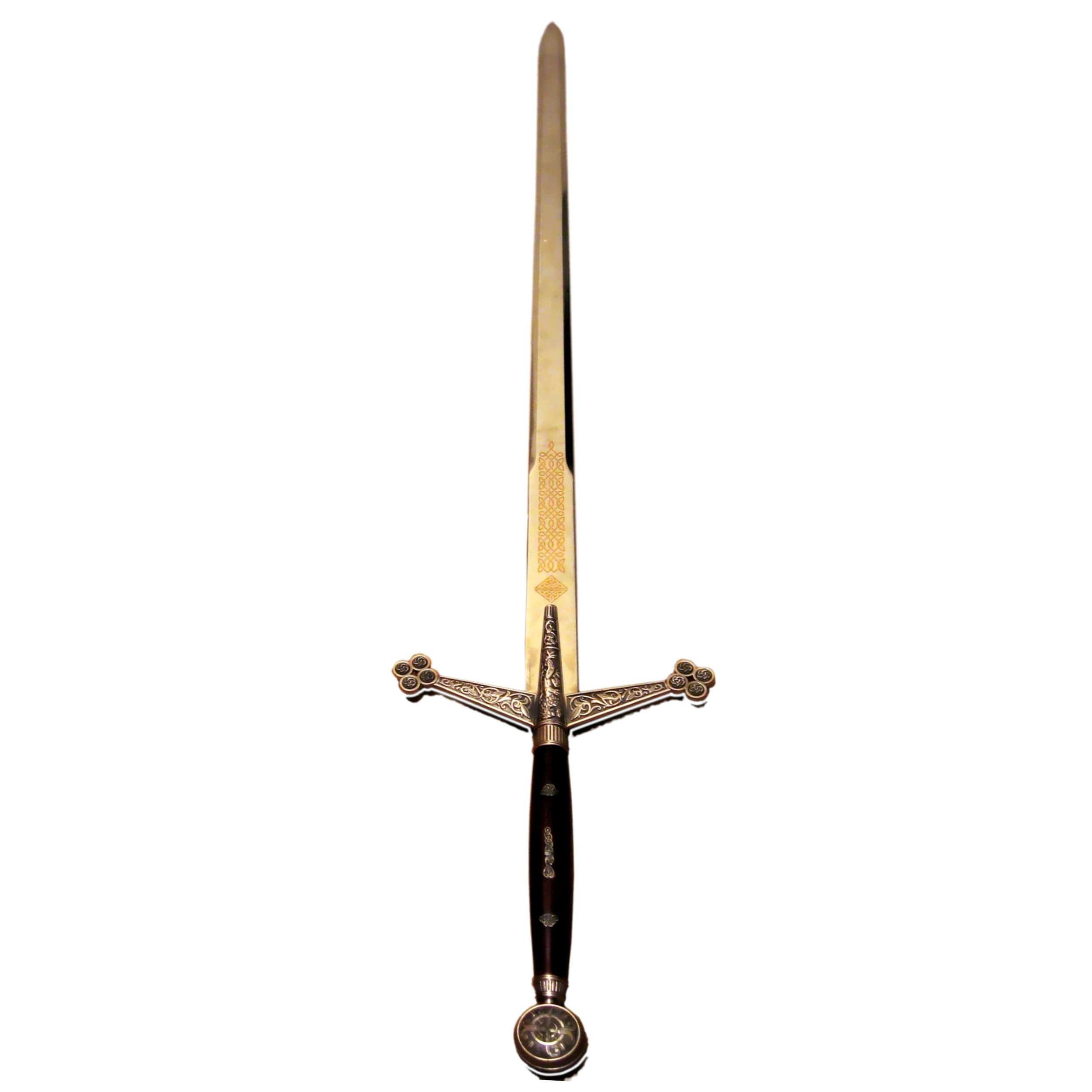 A replica of a claymore used in the movie "Highlander"